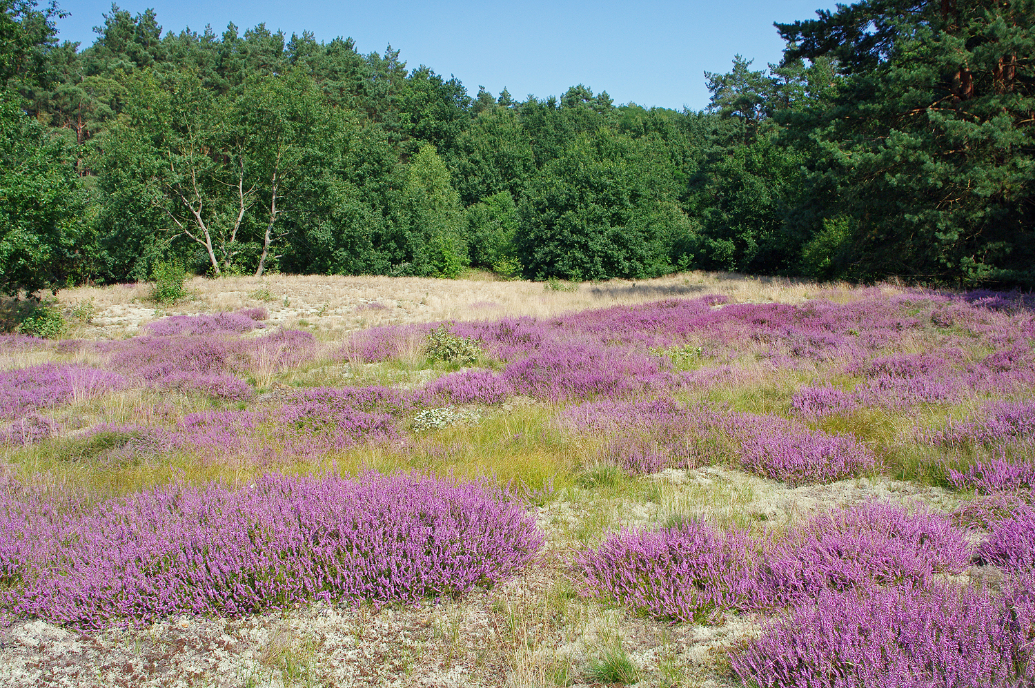 Aspect of flowering Common Heather, Calluna vulgaris, growing in sandy heathland in northern Germany. The natural vegetation of this site is oak-birch forest. Without care measures, reforestation would take place.